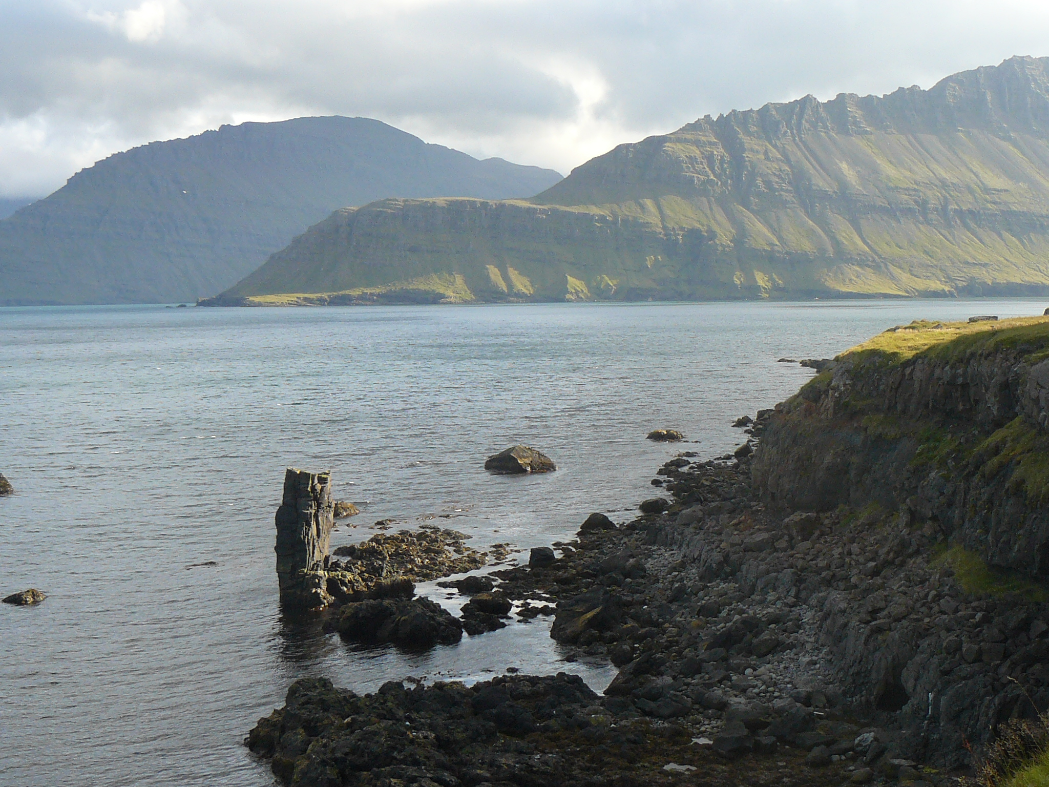 View of Norðfjörður